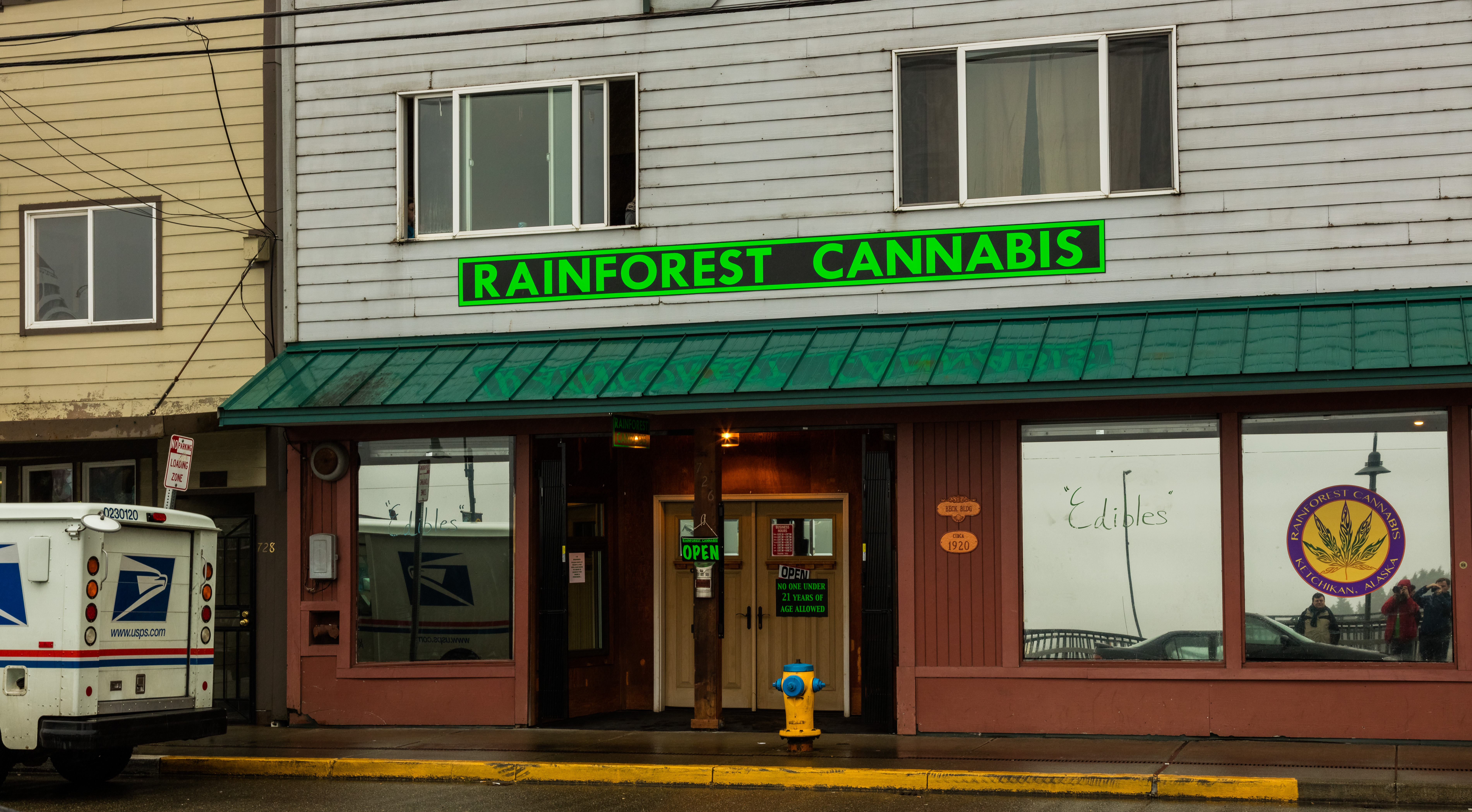 Cannabis shop, Ketchikan, Alaska, United States